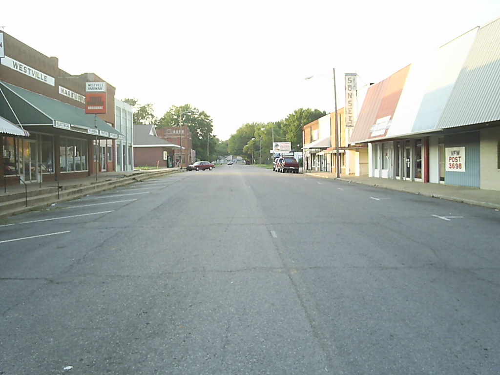 Looking north on Williams Street, the original downtown of Westville, Oklahoma.